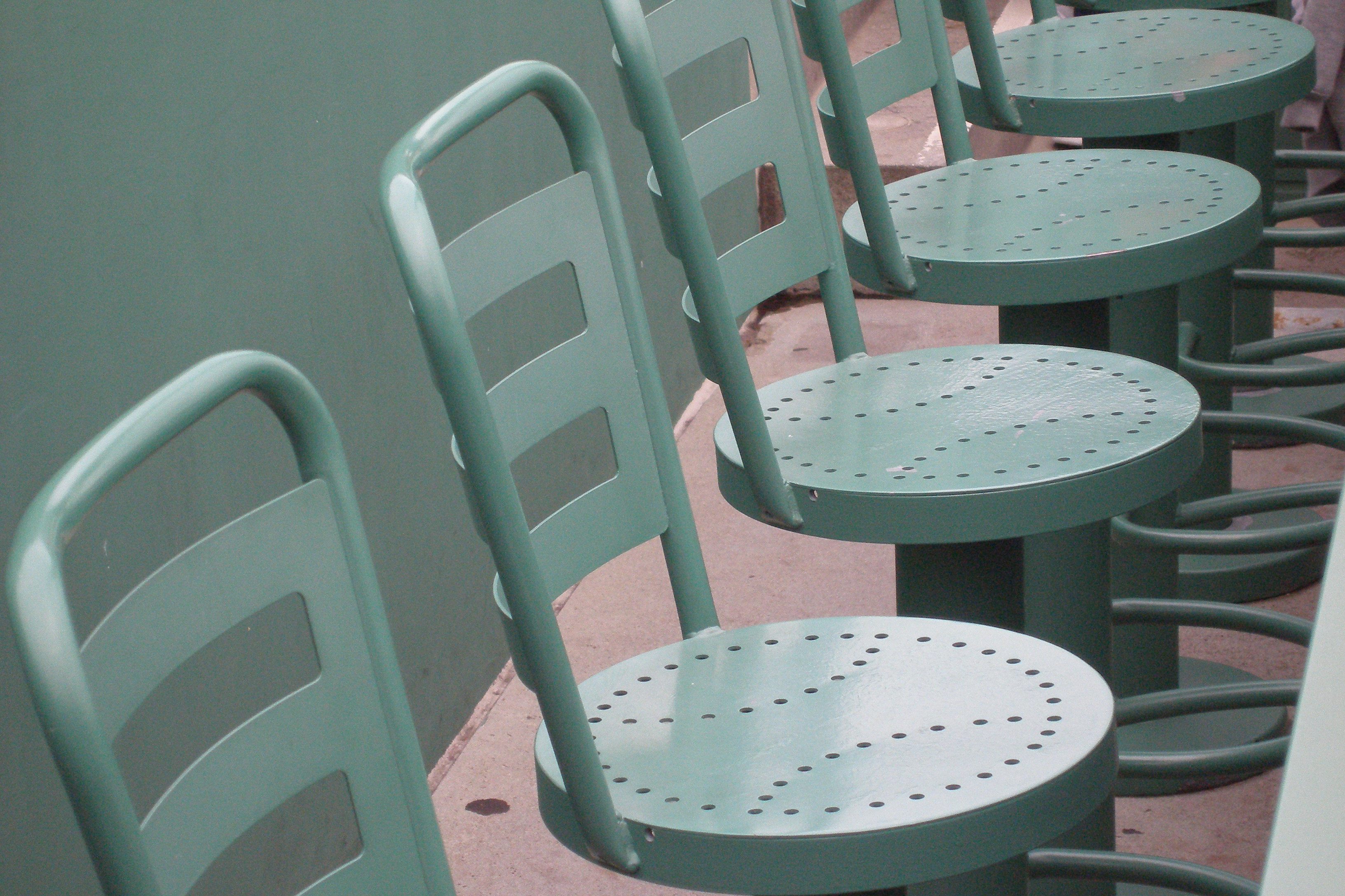 Photo taken by Aidan Siegel. The stats atop the Green Monster. The liscense I released it under says that anyone may use the photo, as long as they give me credit for the photo, and if you edit this photo, you must still give me credit for taking the original one. However, I may waive this license, if you email me (see my user page), and tell me what you want it for. If you want it for a cause that I wish to waive this for, I will. 19:50, 6 September 2006 . . aido2002 . . 3264×2176 (1,412,862 bytes)